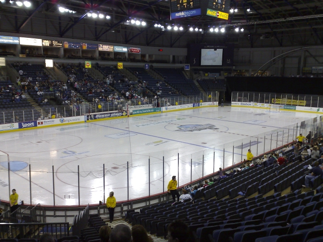 This is a photograph that shows the Odyssey Arena ice pad on 3 October 2010 during an exhibition ice hockey match between a UK select ice hockey team and the NHL's Boston Bruins